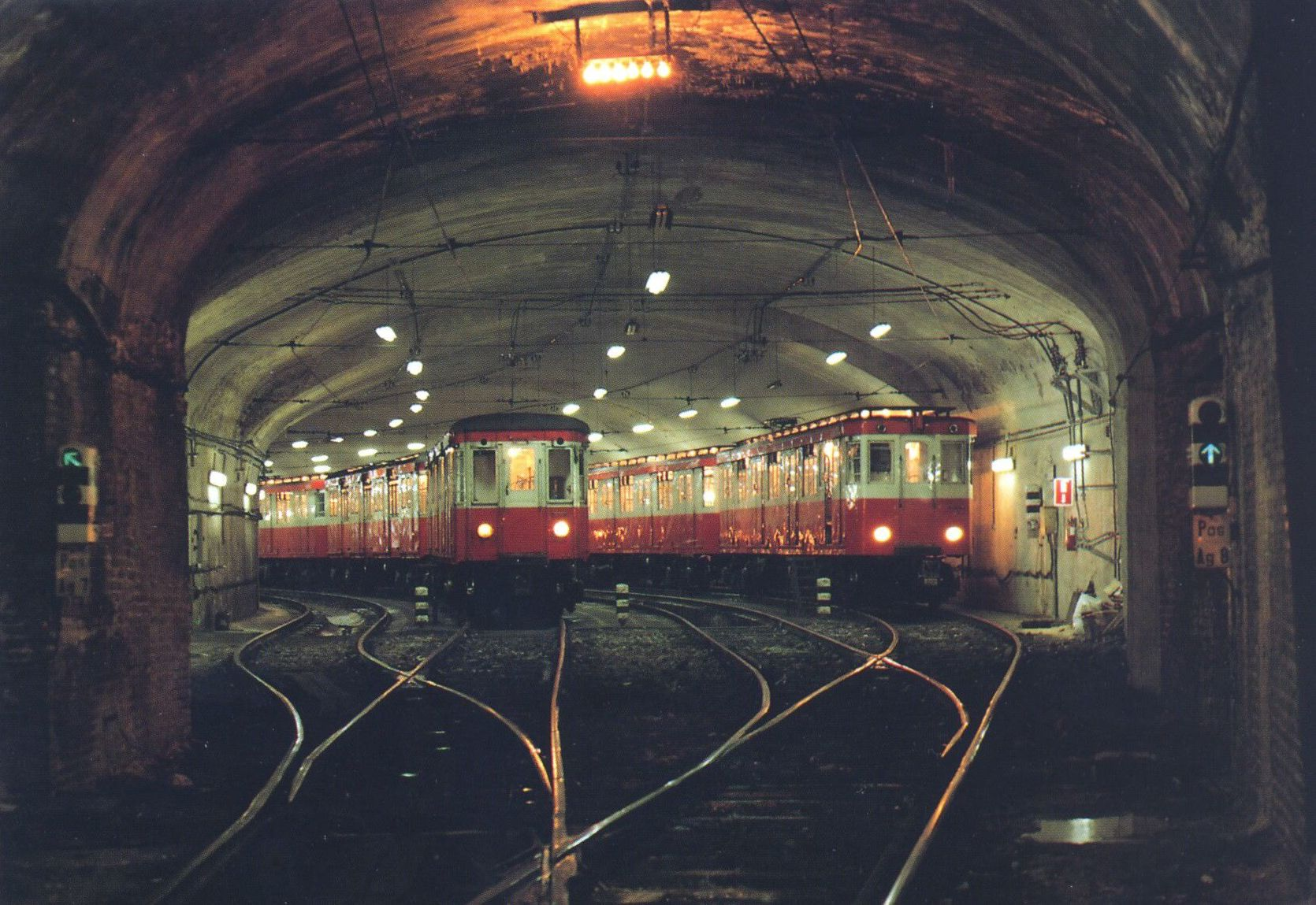 Class 1000 of Madrid Metro